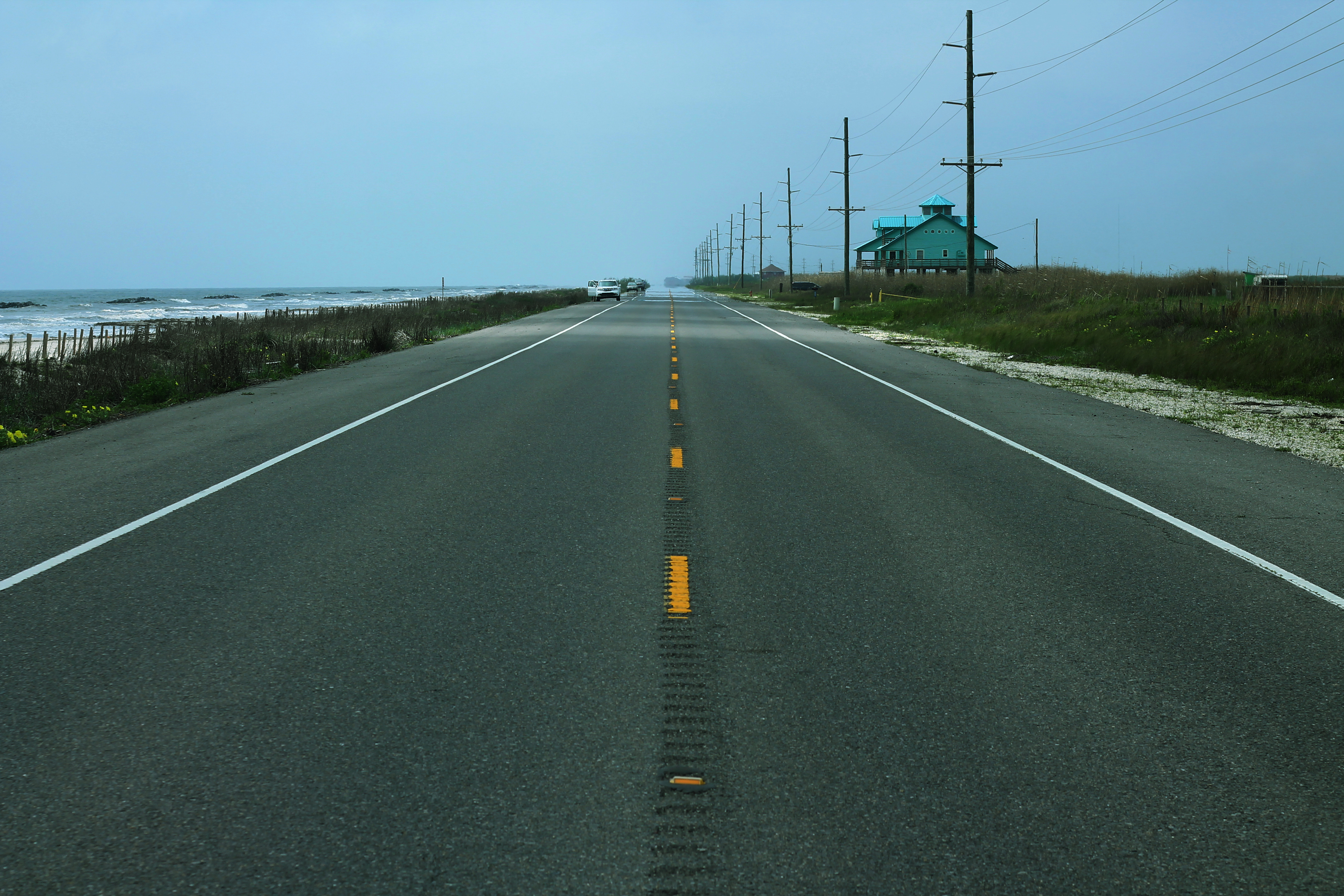 Louisiana Highway 82 along side the Gulf of Mexico, near Holly Beach.